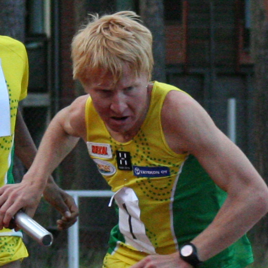 Finnish long-distance runner and orienteerer Mårten Boström 2006. Photo by Jonny Smeds.